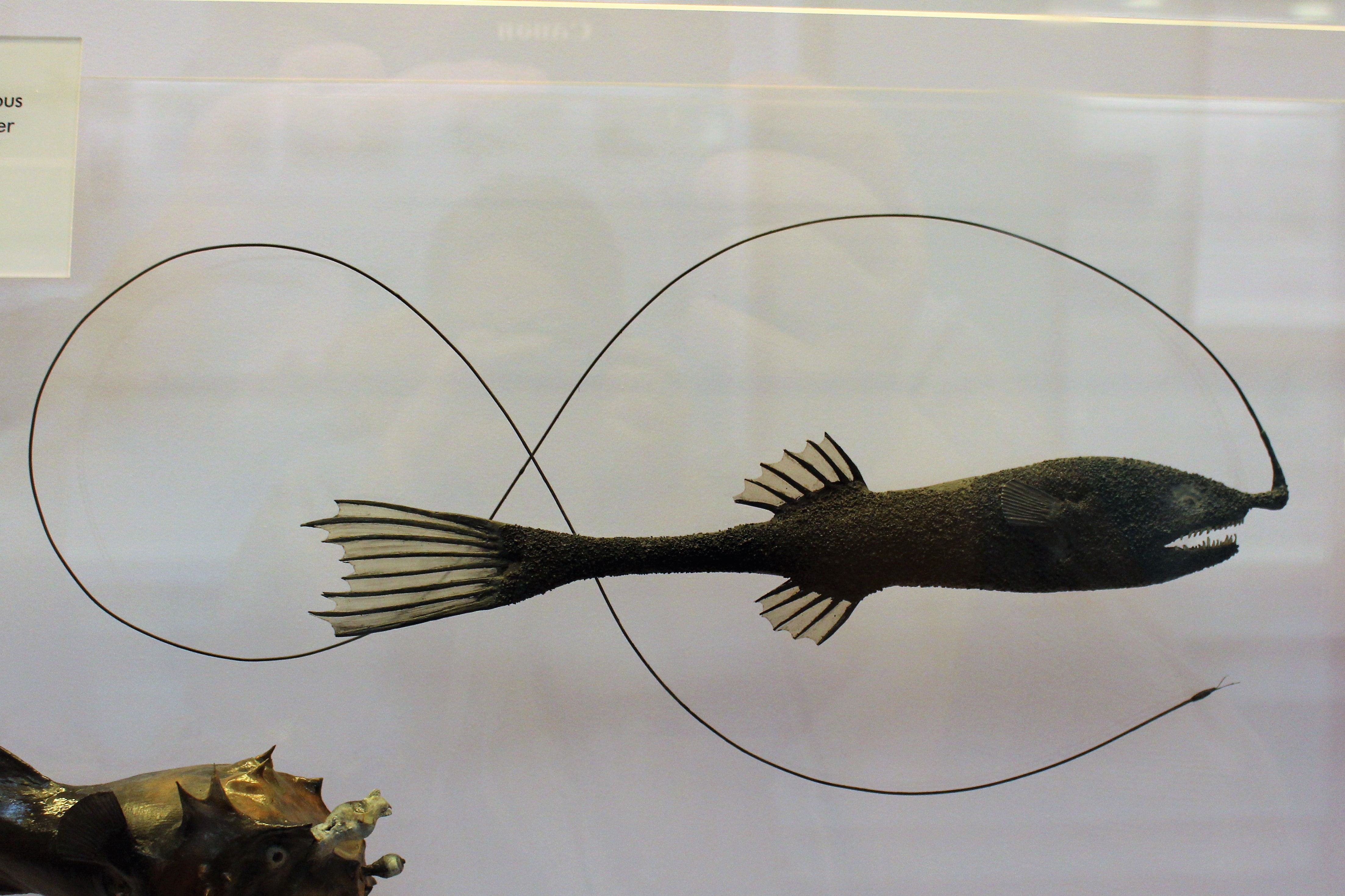 Gigantactis macronema model at the Natural History Museum in London, England.